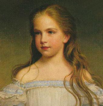 Archduchess Gisela of Austria as small child